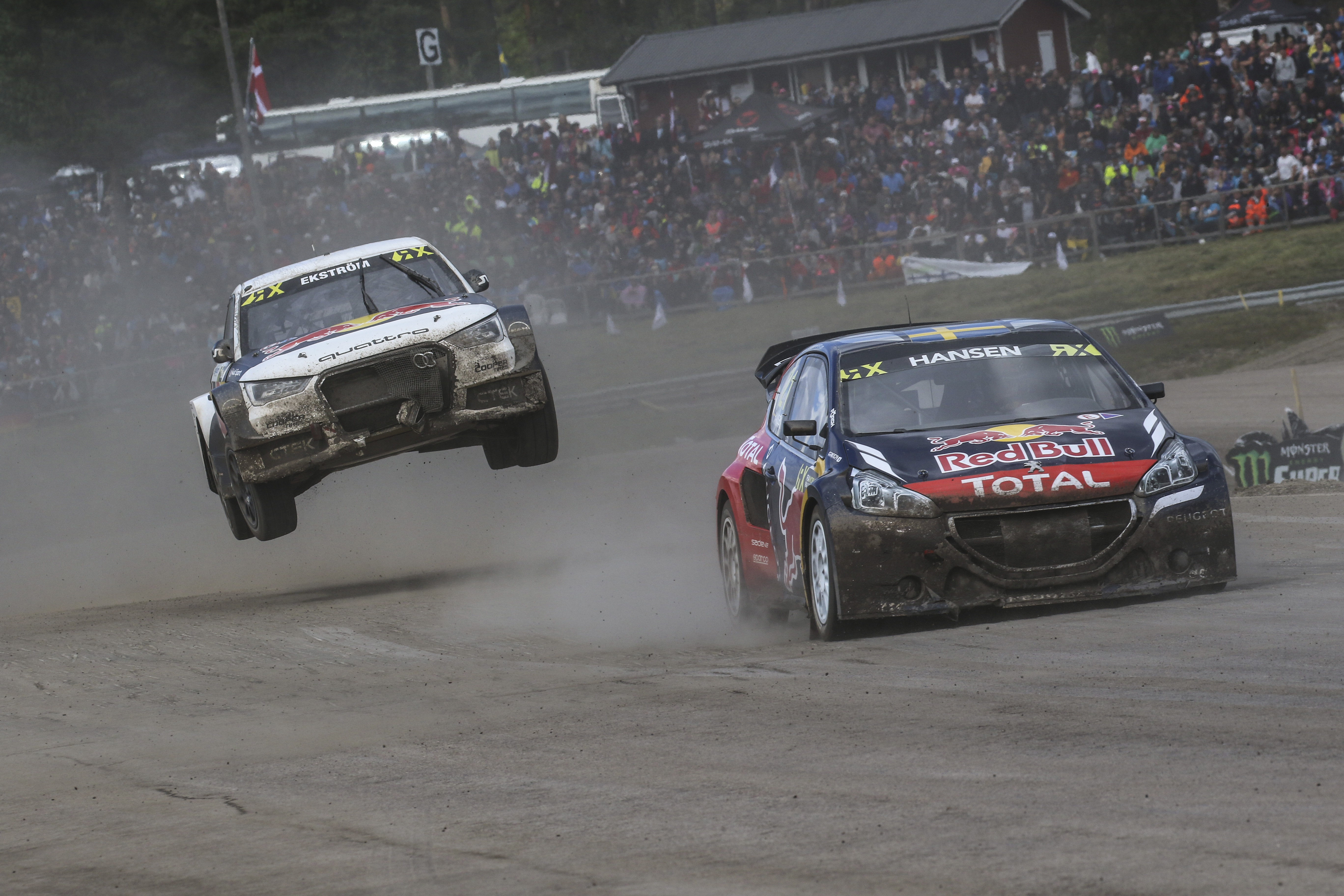 2016 FIA World Rallycross Championship / Round 06, Holjes Sweden 1/7-3/7-2016 // Worldwide Copyright: Tony Welam/EKS/McKlein